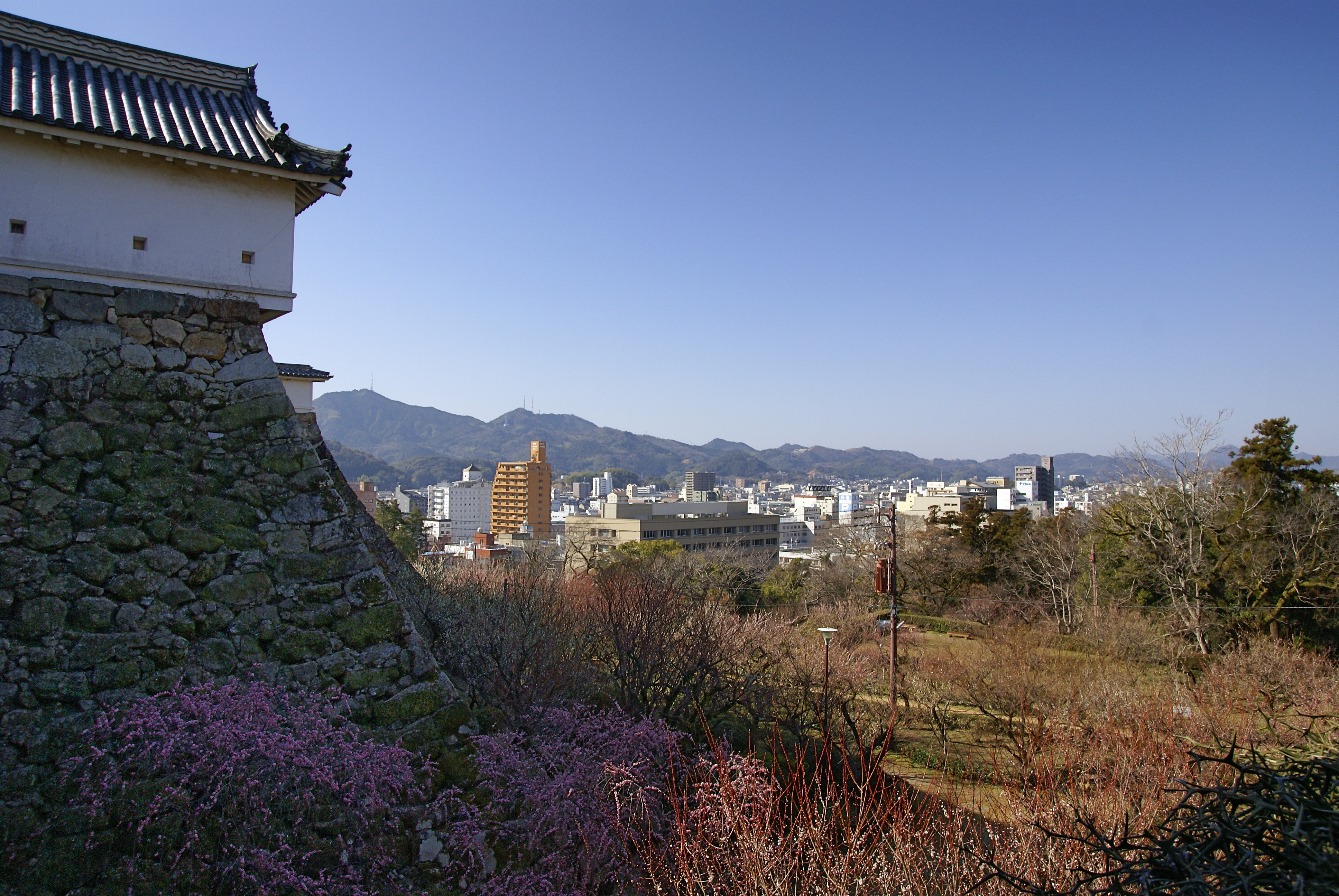 Kochi Castle in Kochi, Kochi prefecture, Japan